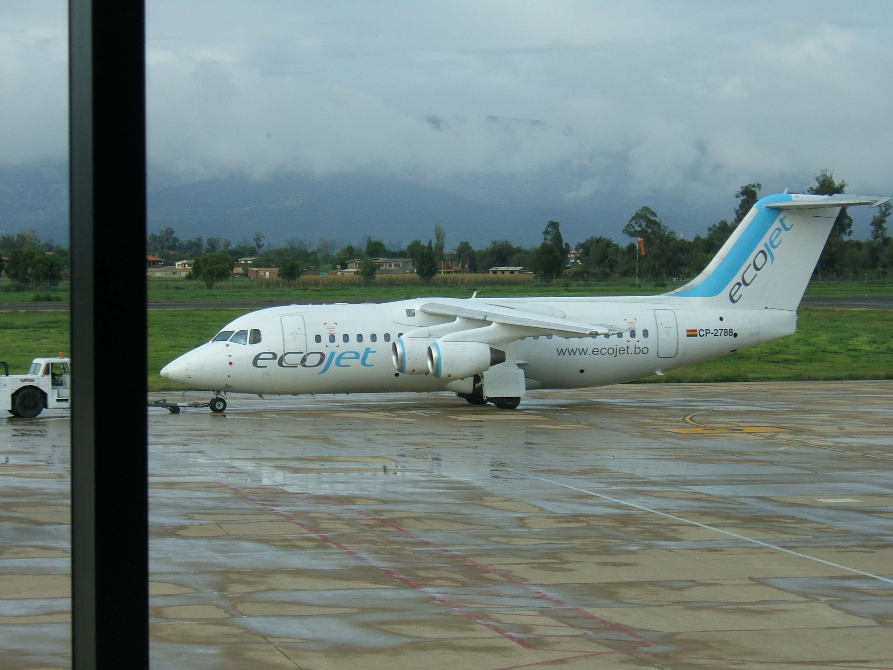 This is a photo from a Ecojet Avro RJ85 in the Cochabamba airport.